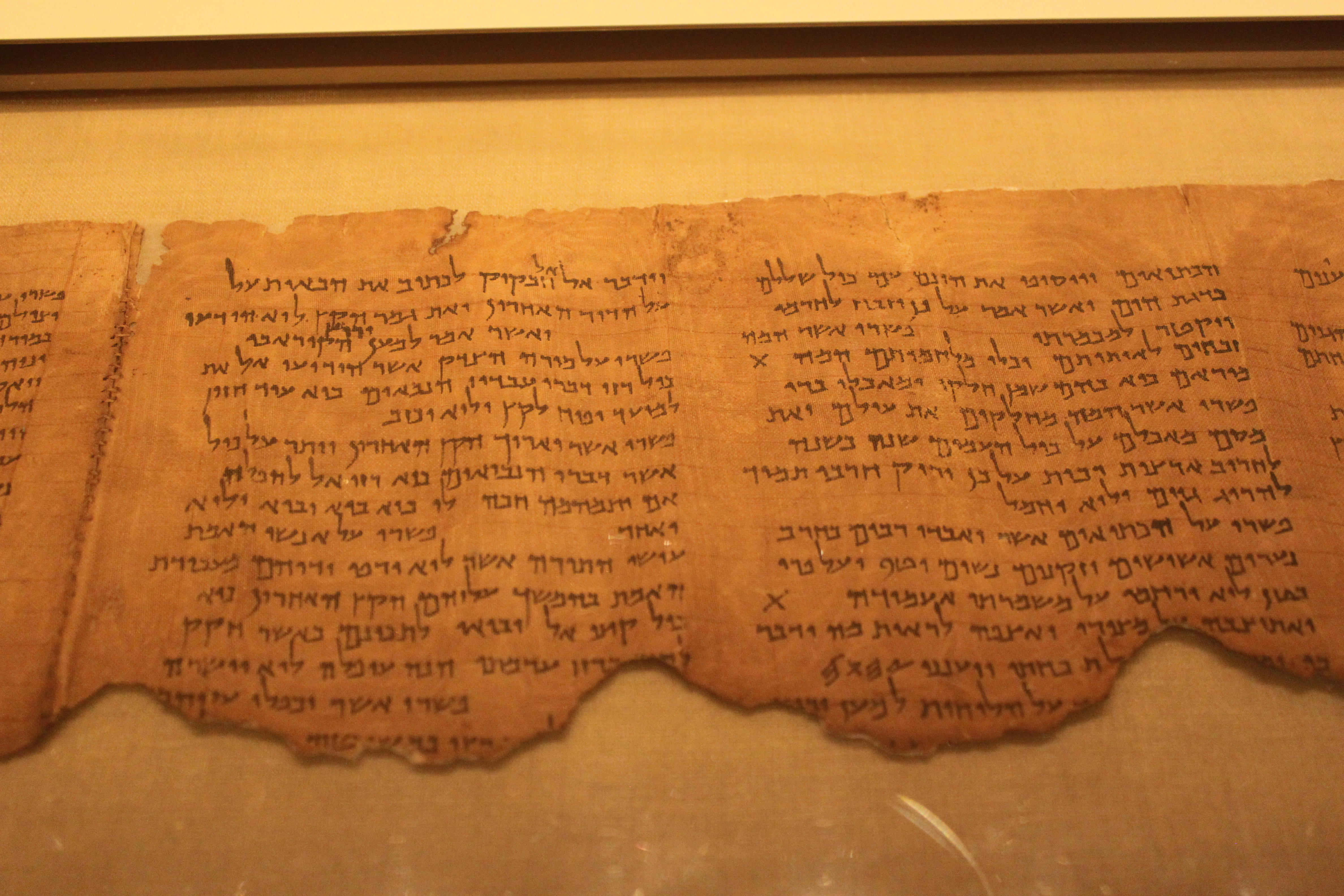 The Pesher Habakkuk Scroll, written in Hebrew, Qumran, Cave 1, 2nd half of the 1st Century of the 1st century BCE, Parchment. Israel-Museum, Jerusalem.